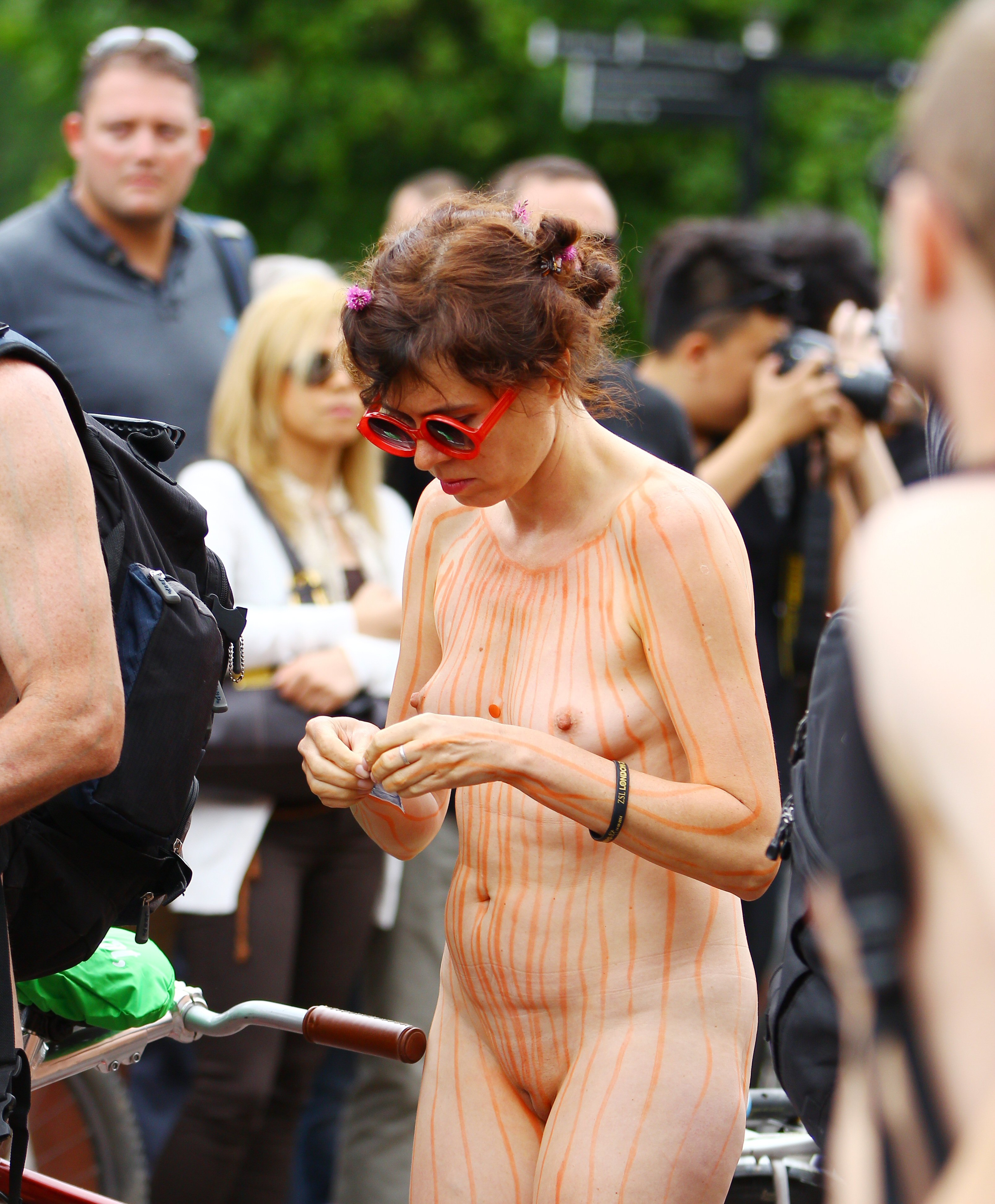 Somewhat odd paintjob